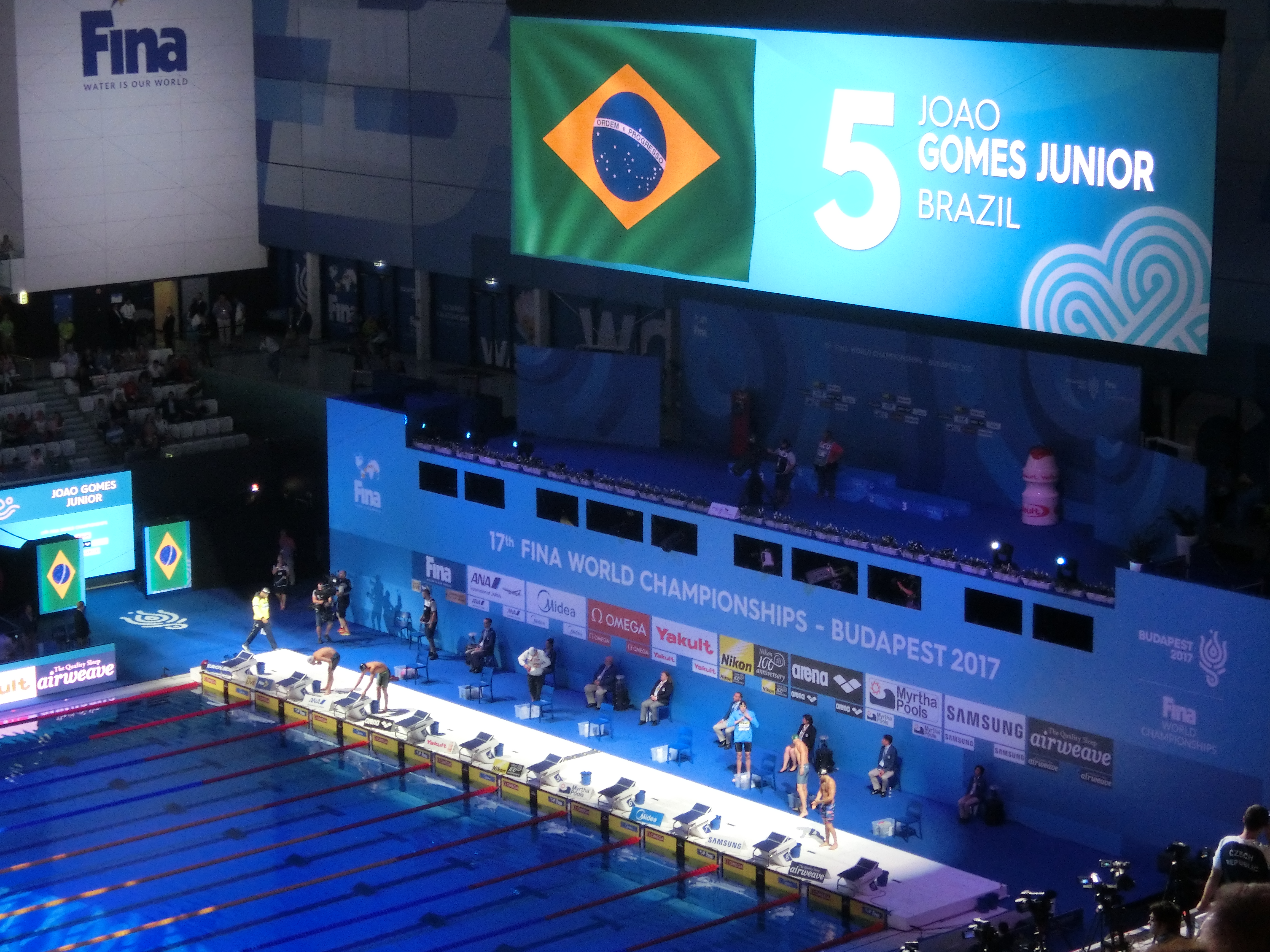 FINA World Championships, Budapest, 2017-07-25, 50m breaststroke semifinal, Joao Gomes Junior (Brazil)